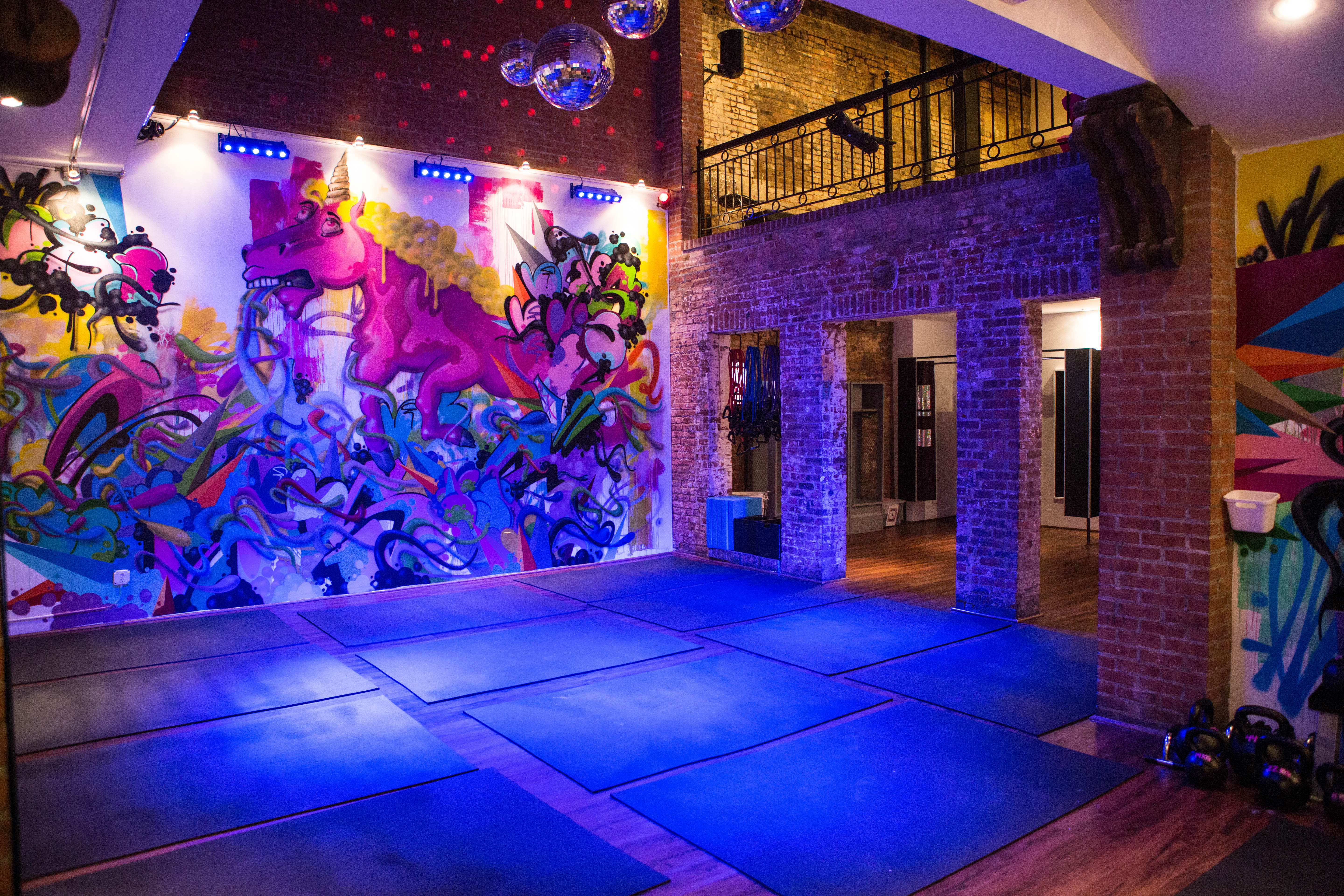 An interior shot of The Snatchery at Mark Fisher Fitness in Hell's Kitchen